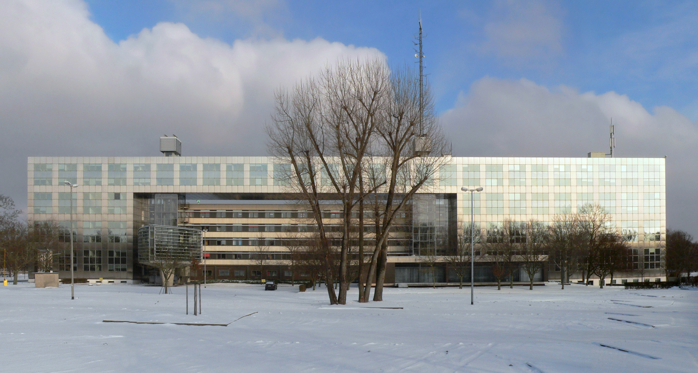 Landeskriminalamt Niedersachsen